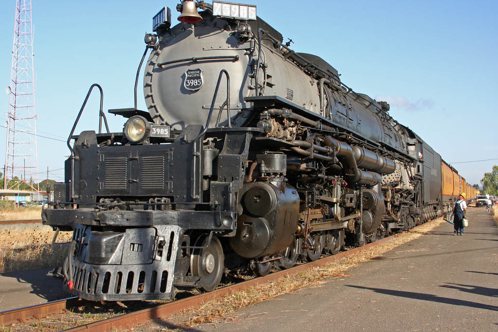 The 3985 and train on display in the Eugene trainyard.